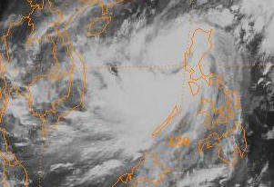 Typhoon Ruby emerging from the Philippines on October 15. From